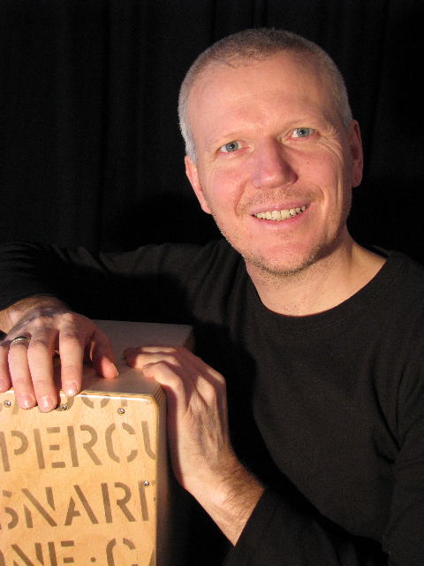 Conny Sommer